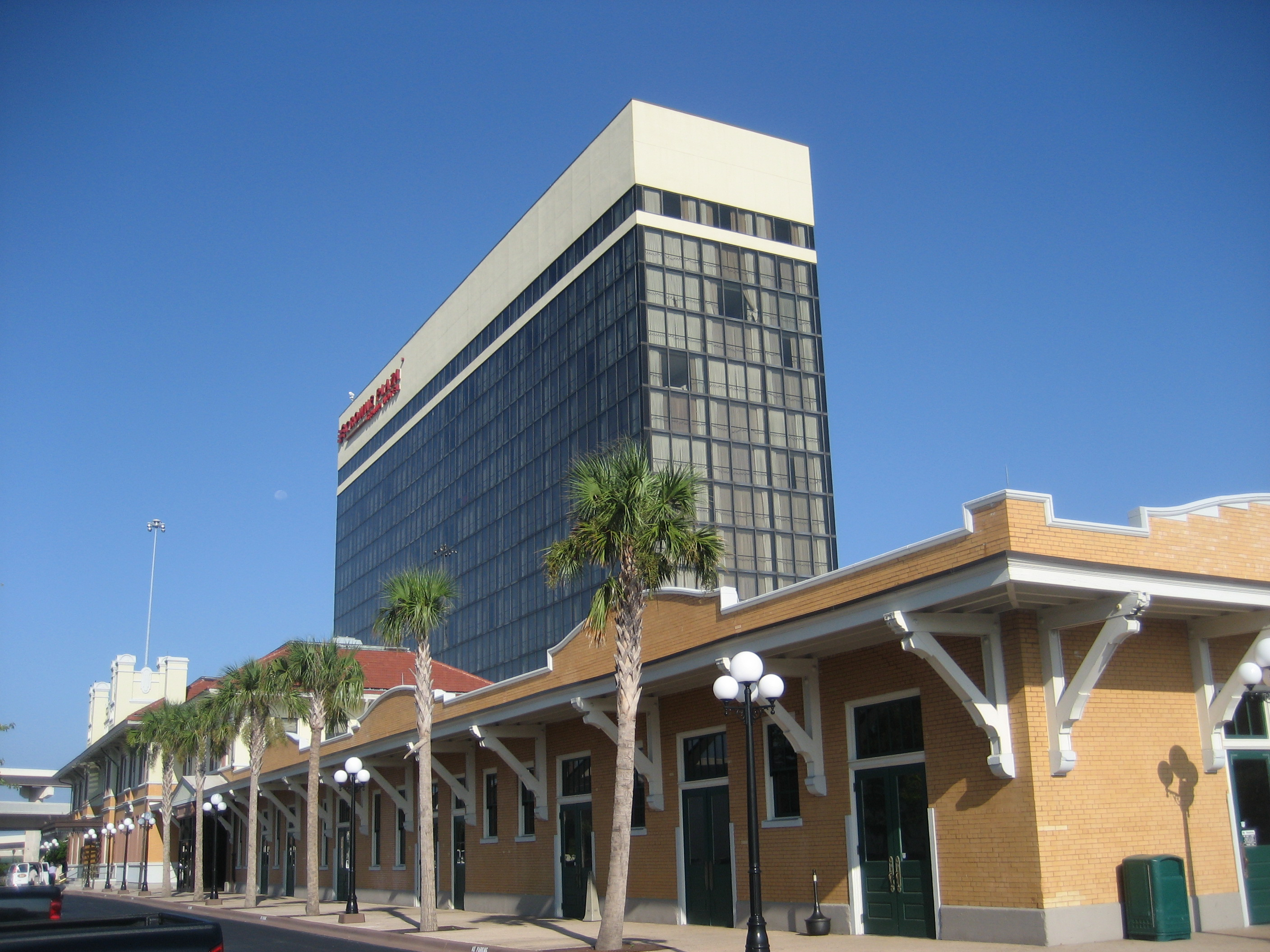 Pensacola, Florida. Old L & N railway terminal building now houses shops and restaurants and has attached high-rise hotel.